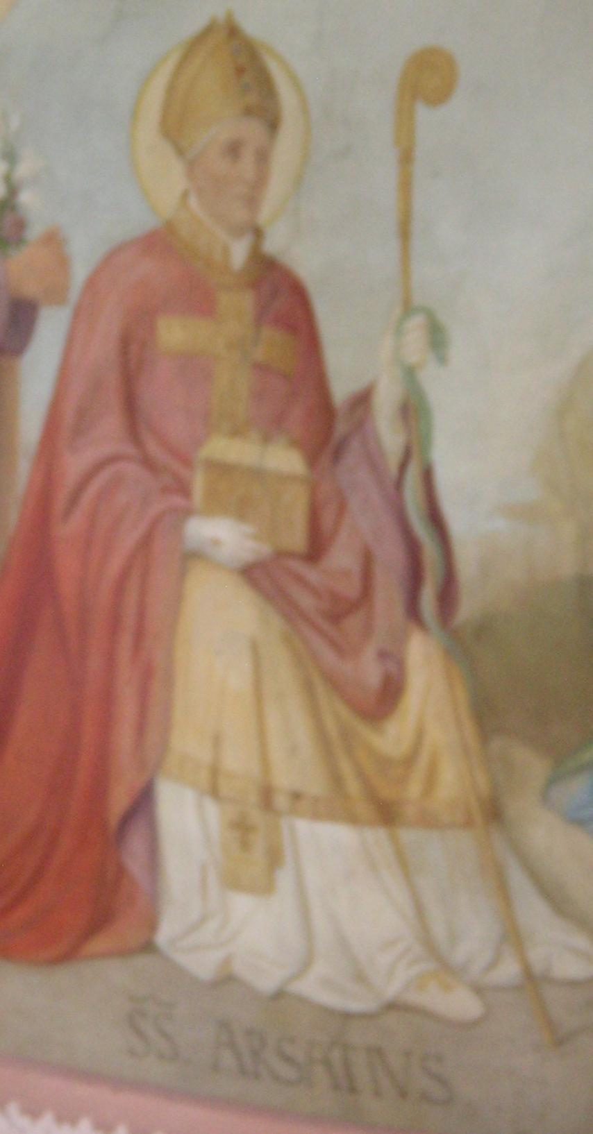 This image of a fresco of Saint Arsatius or Arsacius was taken in the Stiftskirche of Ilmmünster Abbey. It corresponds to the left central part of File:Ilmmuenster Kirche Innen vom Chor.jpg.